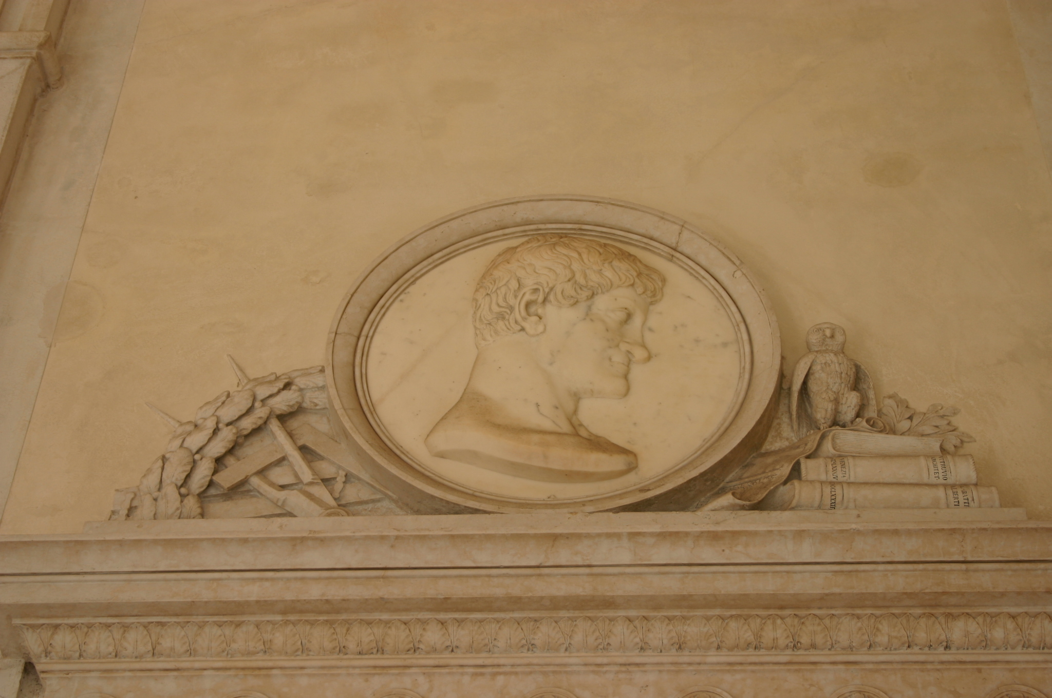 Venice, pronao of Teatro La Fenice Opera House. 1837 monument to architect Gian Antonio Selva (1753-1819), who rebuilt the theatre after the fire.Picture by Giovanni Dall'Orto, August 6, 2007.